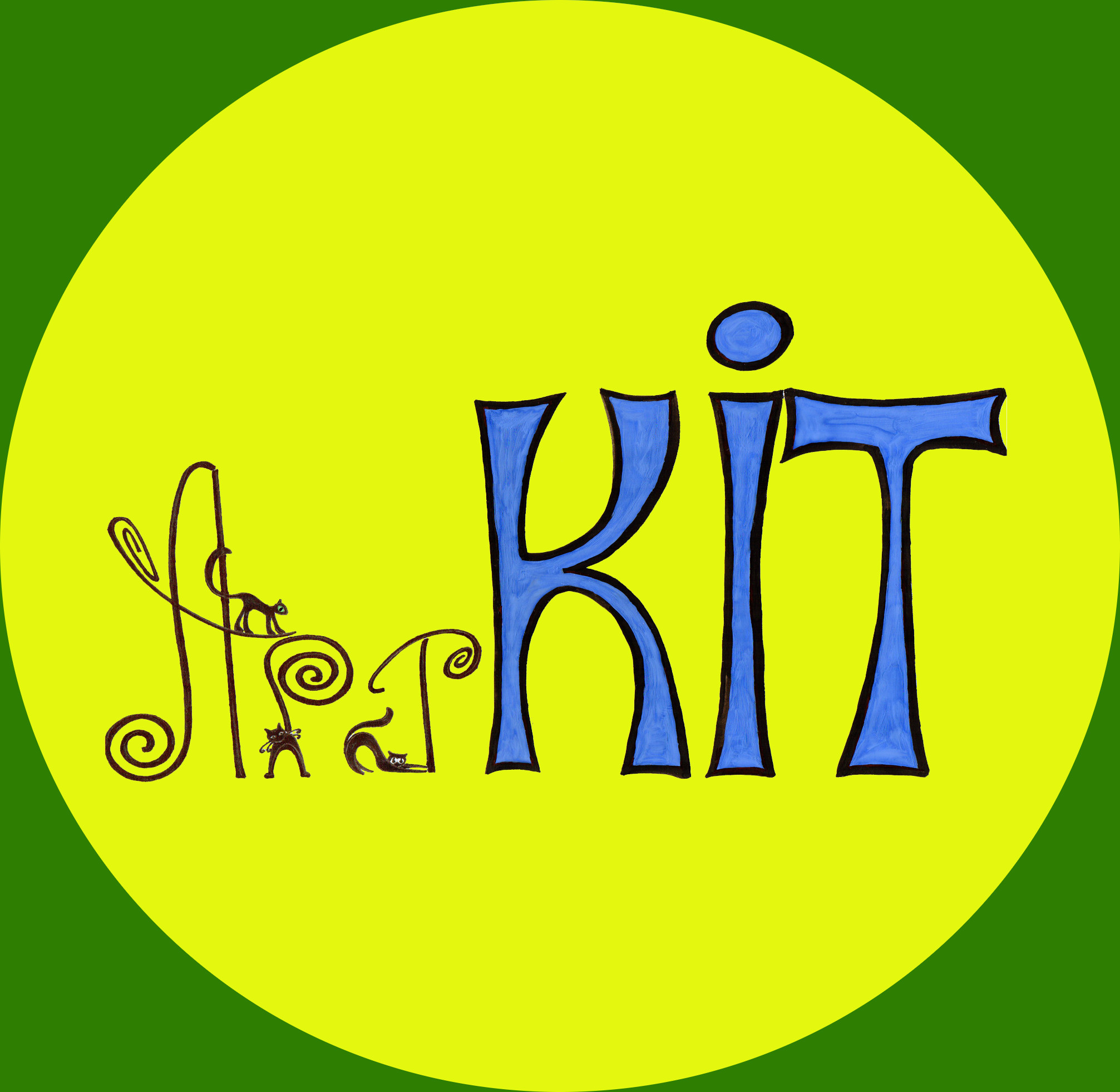 Symbol of Art Cat project of "Nature First" Free Journalist Associaction. Originally painted by Tonya Melnyk in 2012.